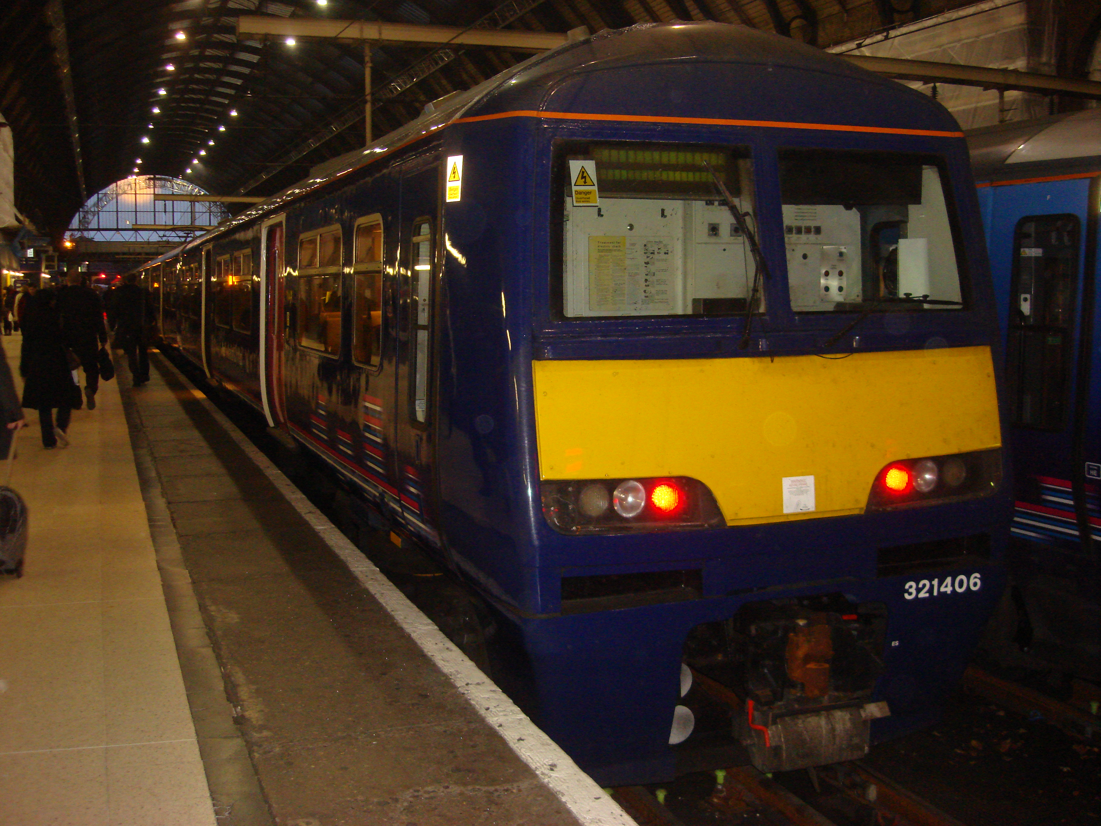 321406 at Kings Cross